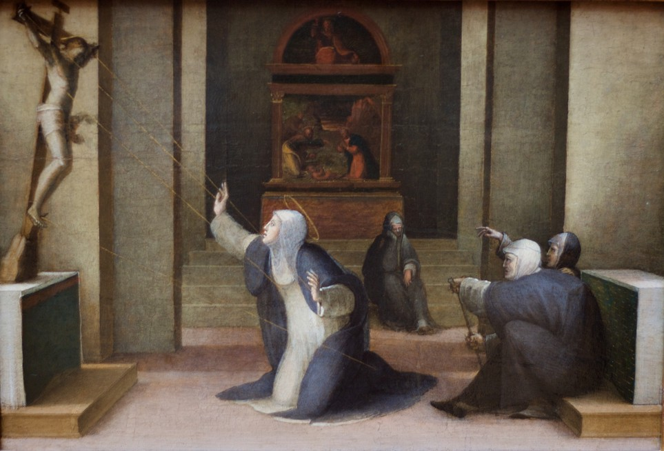 Stigmatization of S. Catherine